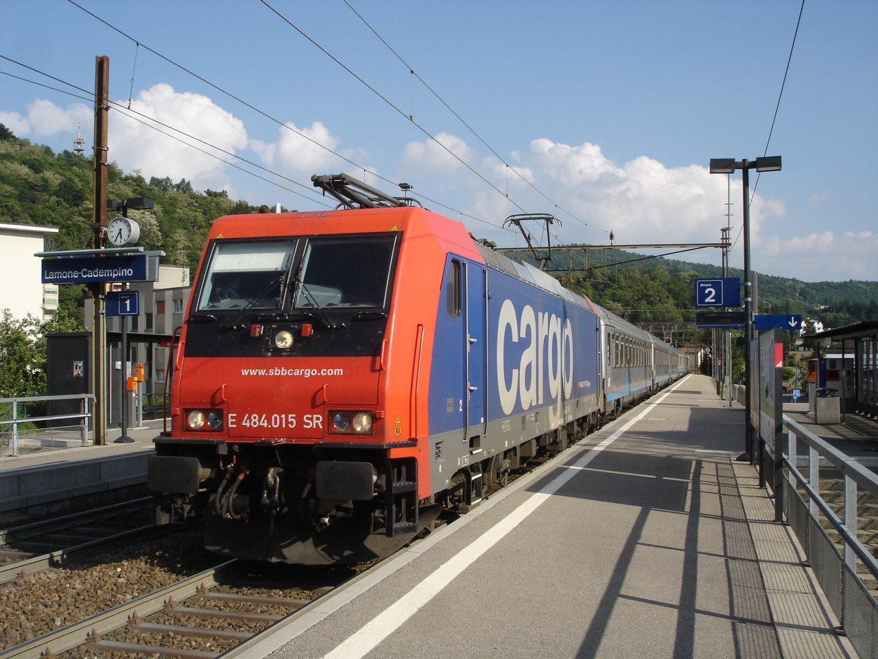 SBB CFF FFS Re 484 015 ahead of InterRegio 172 Milano C.le — Bellinzona calling at Lamone-Cadempino.